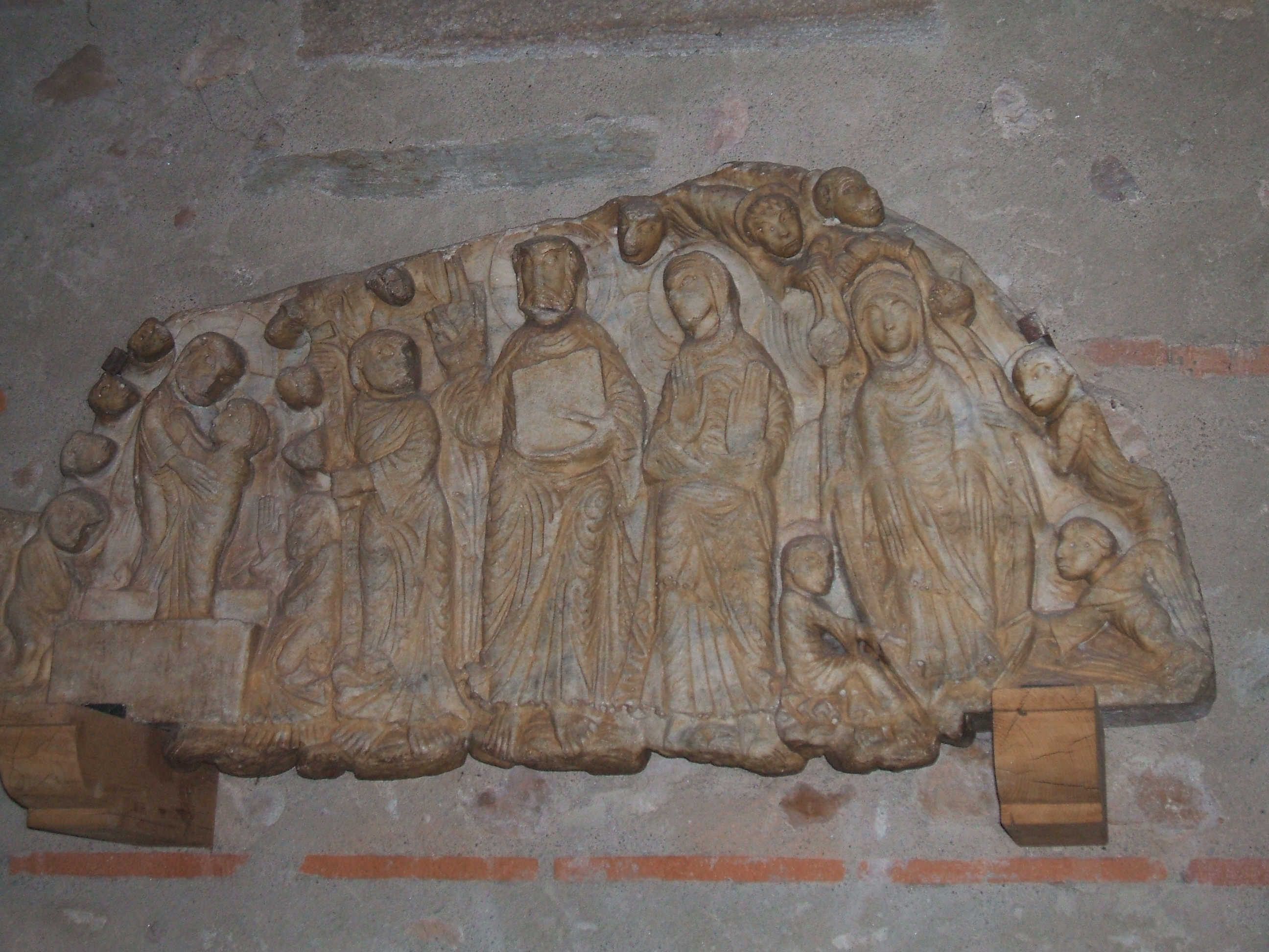 Cabestany, tympanum in the Notre-Dame-des-Anges Church of the Master of Cabestany (sculptor of the XIIth century)